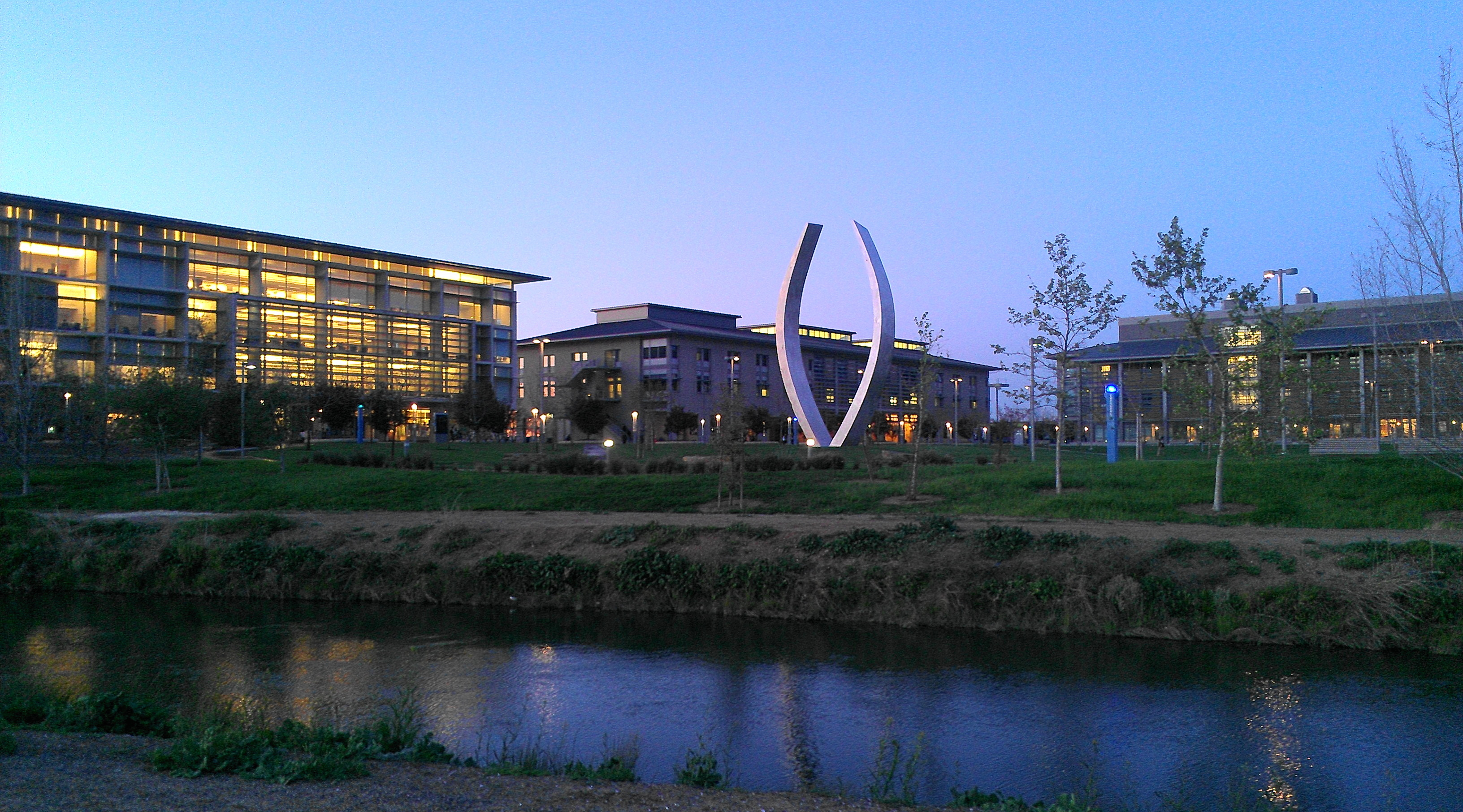 campus